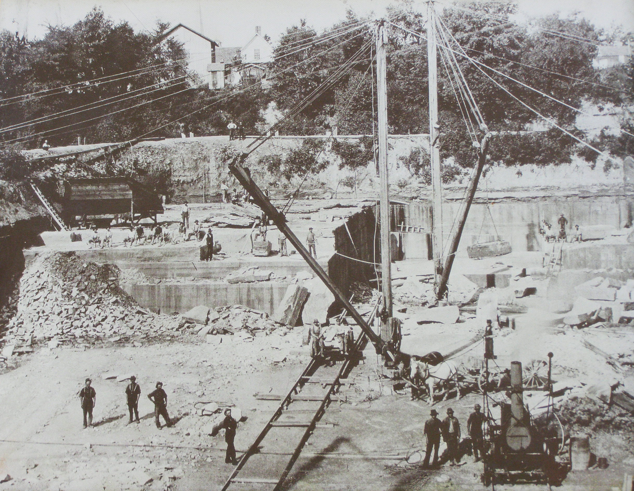 Historic picture of operations in the Big Quarry